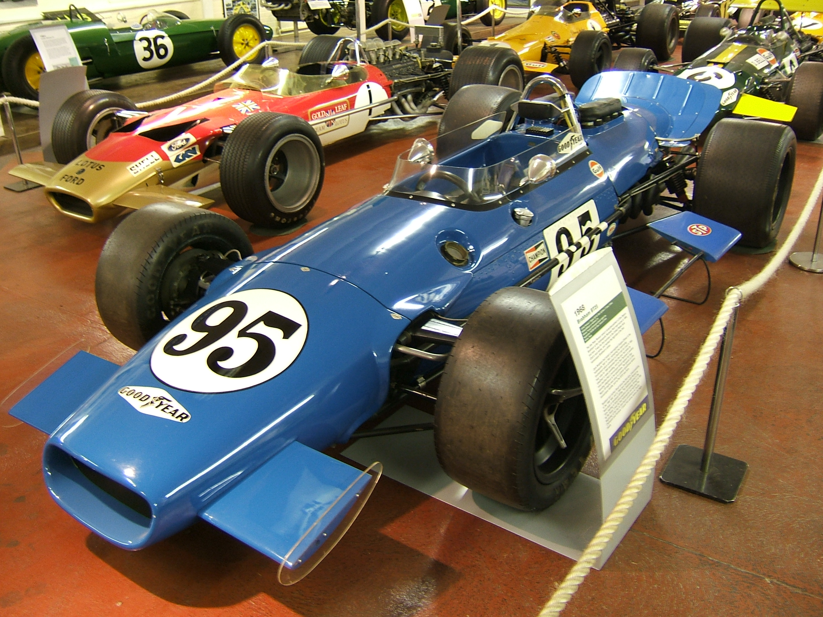 A Brabham BT25 USAC/IndyCar, fitted with a 1.5 litre Formula 3 engine in place of the original Repco V8. In the Donington Grand Prix Collection museum, Leics., UK.